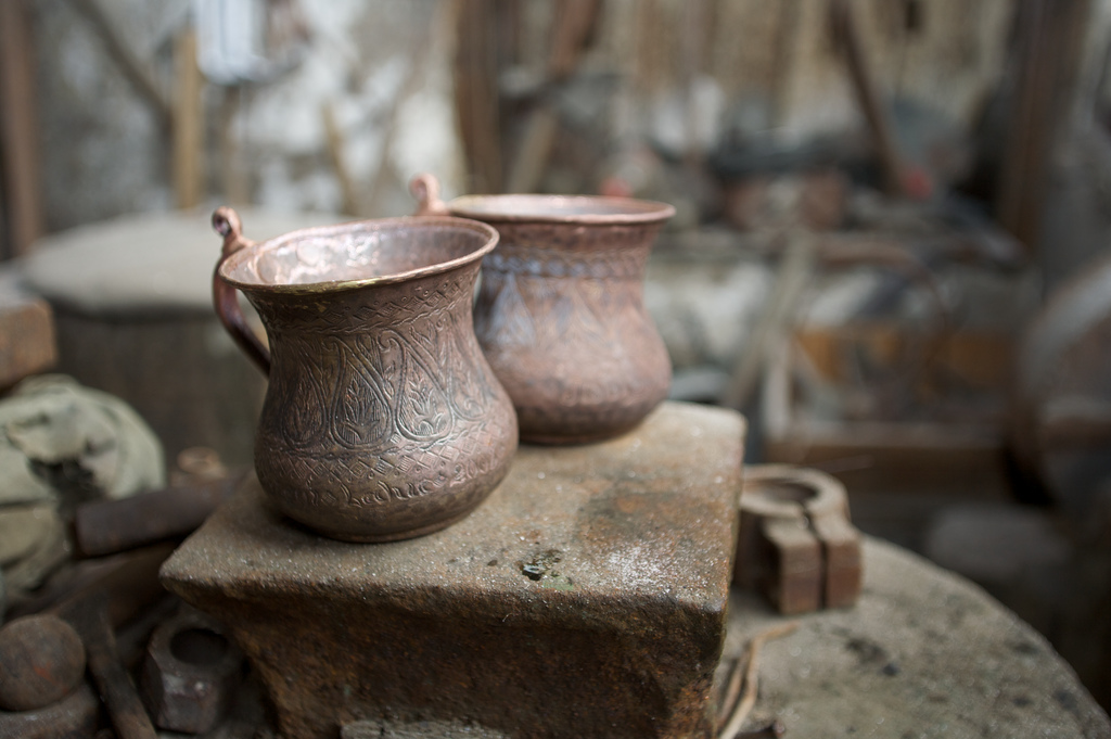 Lahic, Azerbaijan